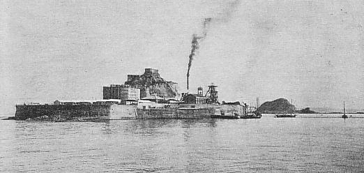 Hashima(Gunkanjima) circa 1930